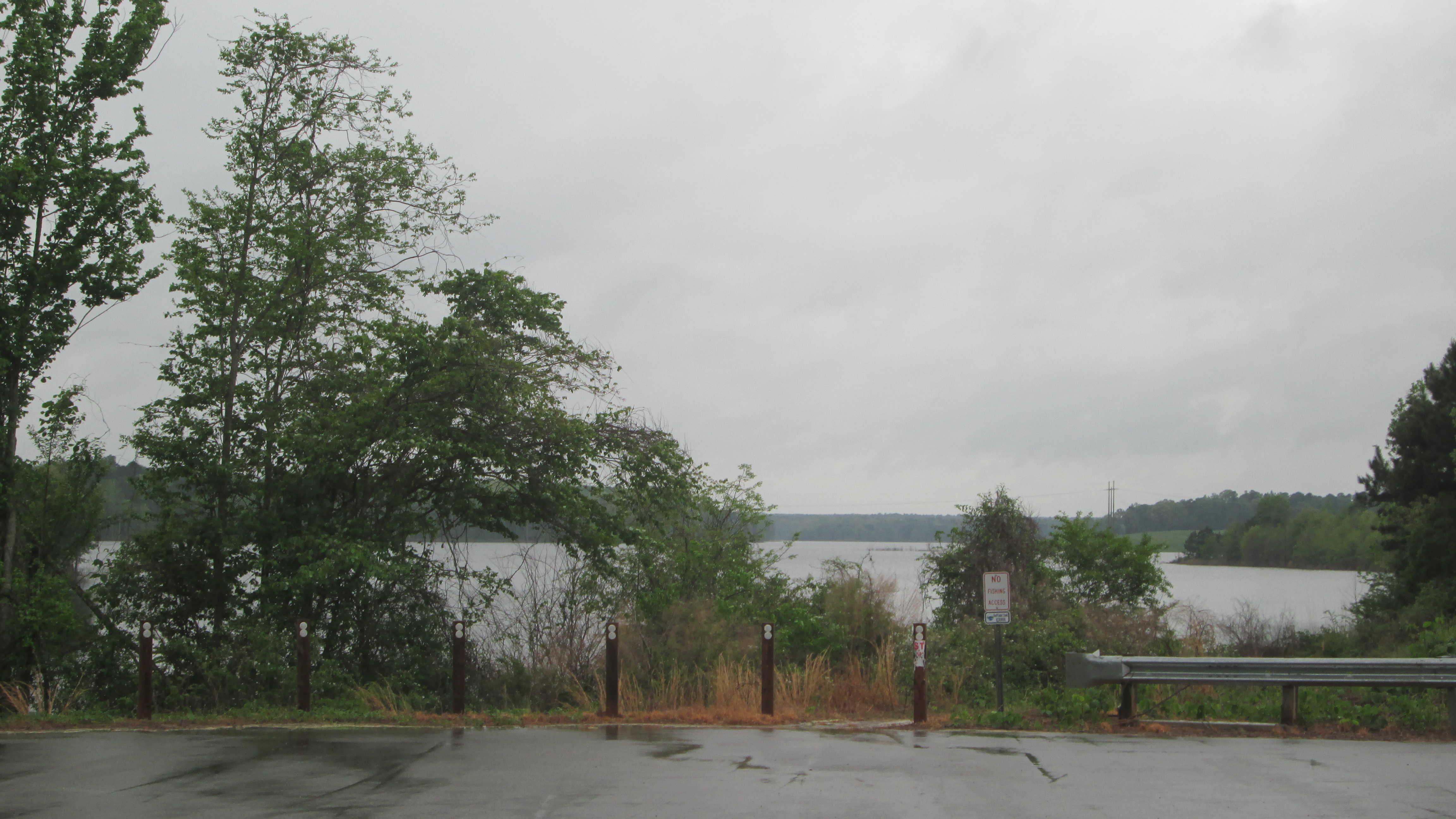 Hard Labor Creek Regional Resovoir, Walton County, State of Georgia, U.S.